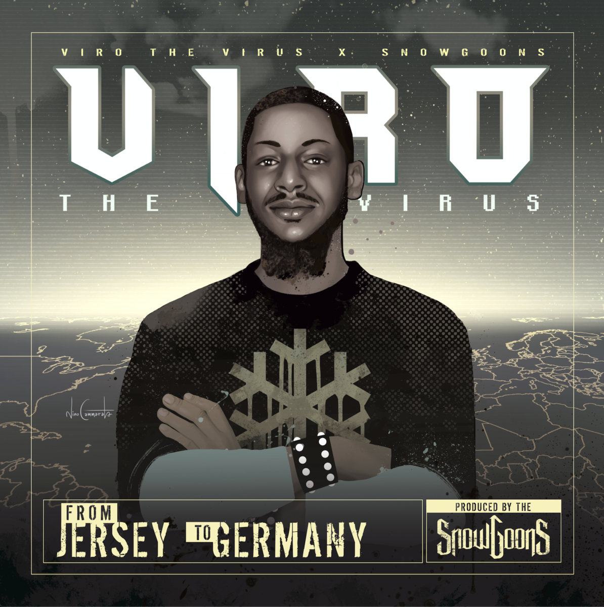 Cover des Albums „From Jersey to Germany“